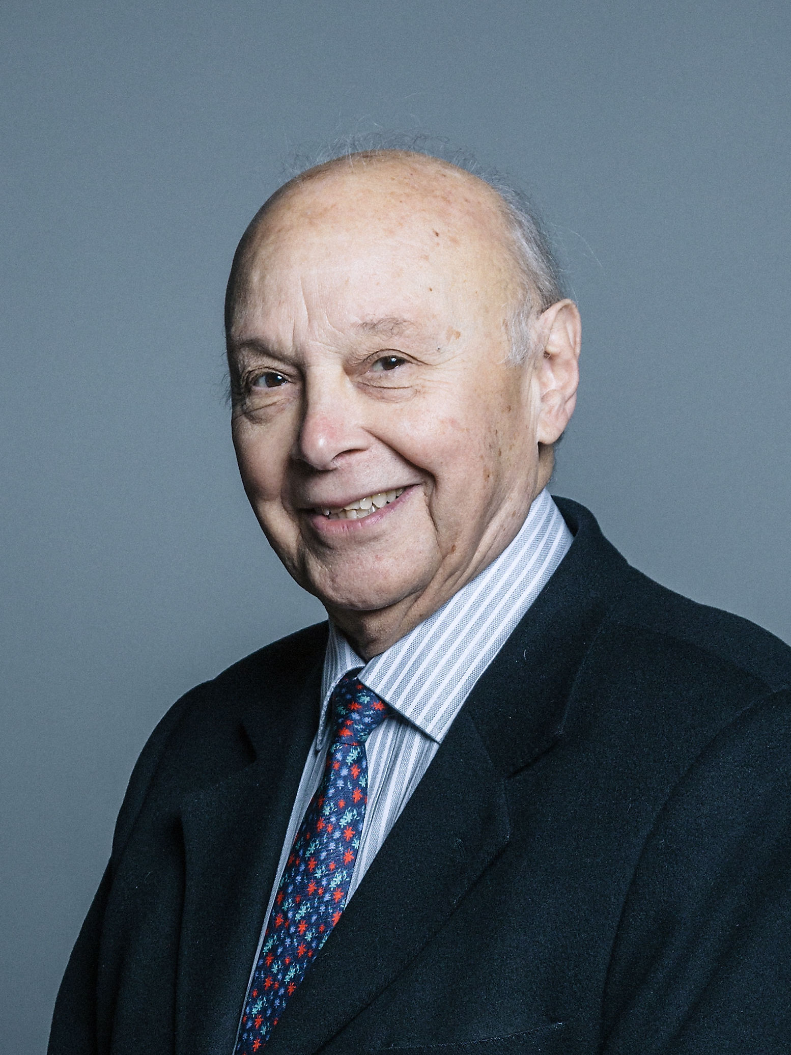 Official portrait of Lord Turnberg